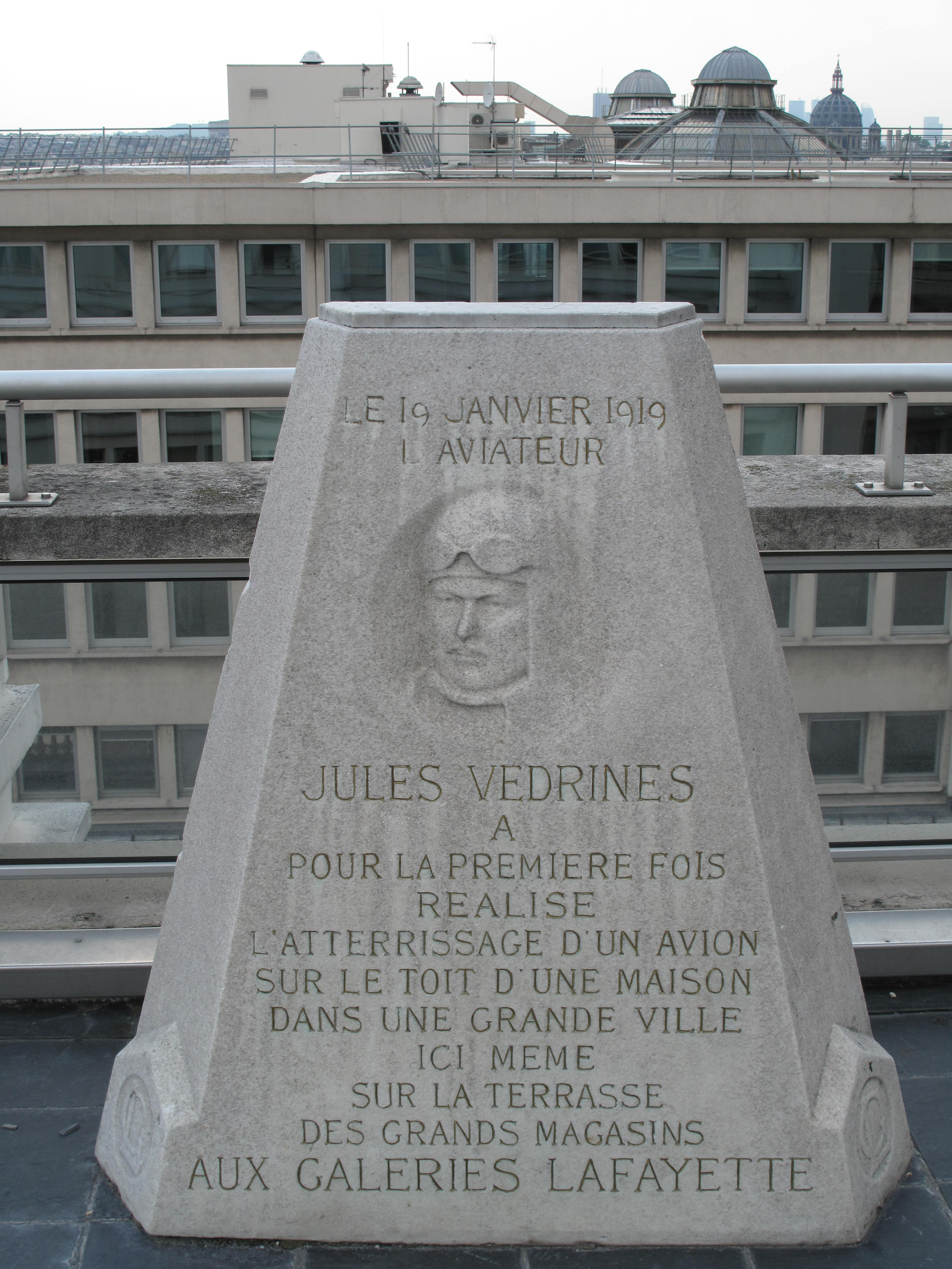 Plaque commemorating the first landing of an aircraft on the roof of a building : Jules Védrines on the terrace of the Galeries Lafayette (19/1/(1919)